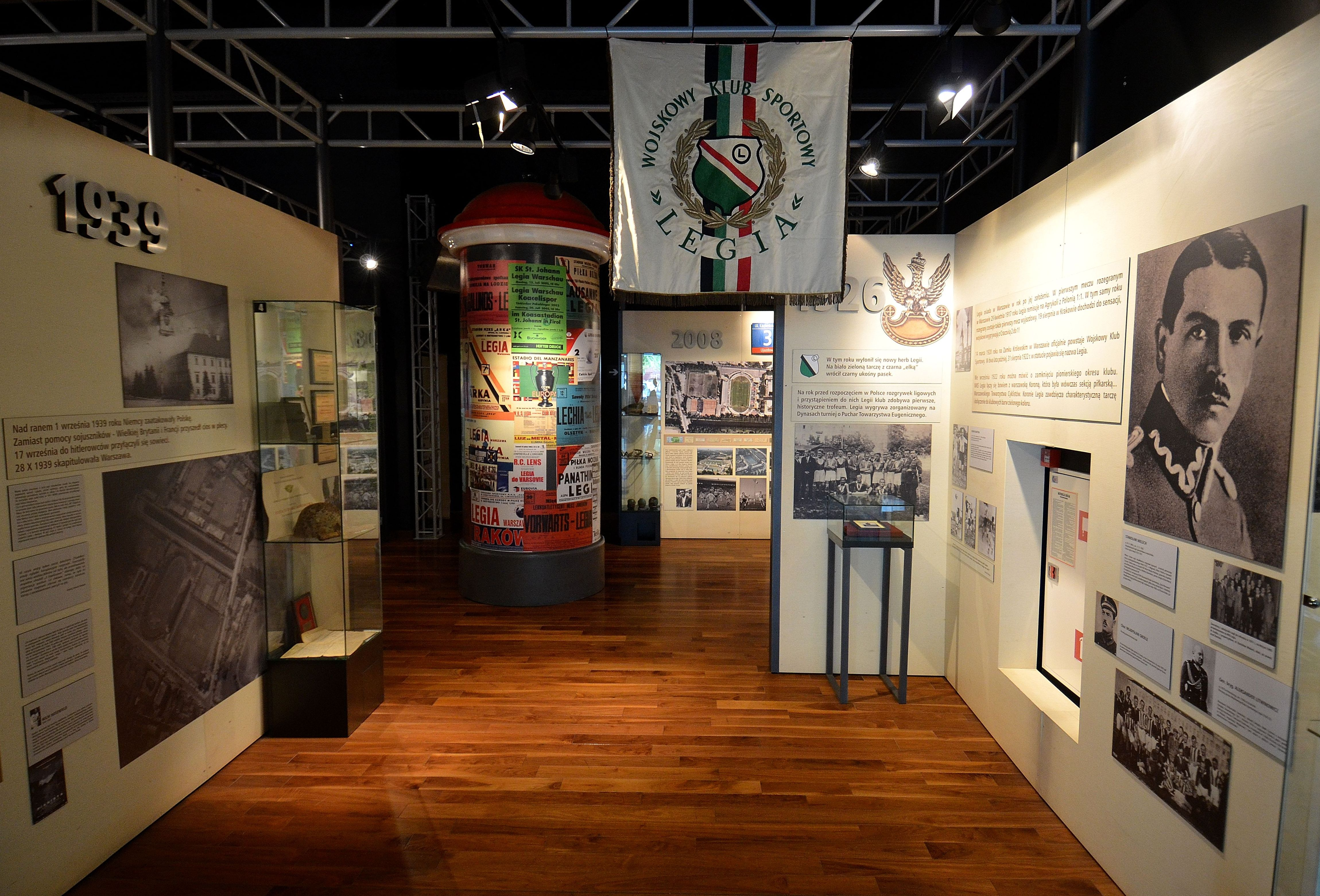 Legia Warszawa Museum